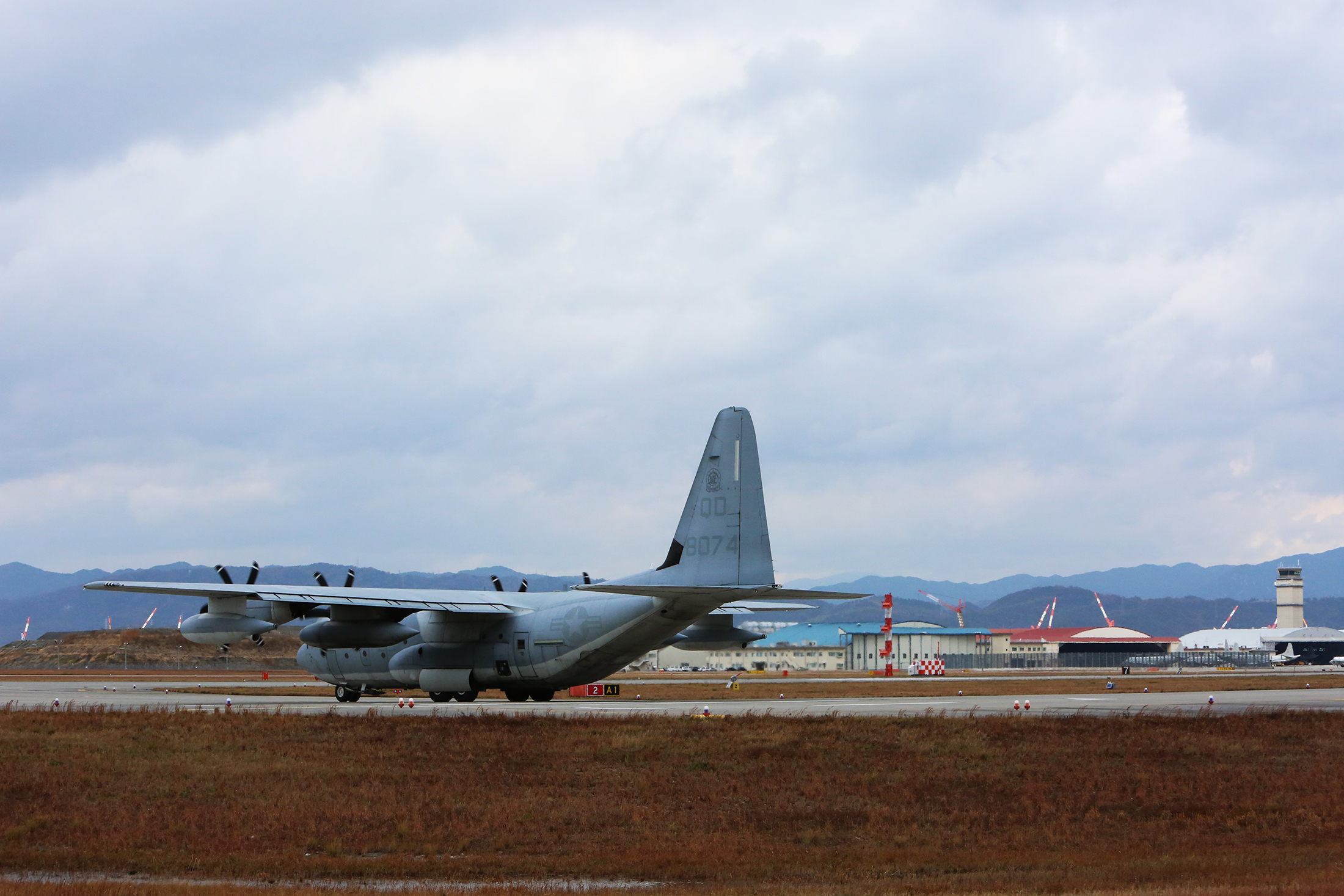 A KC-130J Super Hercules with Marine Aerial Refueler Transport Squadron 152 taxies to the runway aboard Marine Corps Air Station Iwakuni, Japan, Dec. 1, 2014. The squadron, nicknamed “Sumos,” received the Chief of Naval Operations Aviation Safety Award for 2013 flying more than 2,900 sorties throughout the Western Pacific area and amassing more than 7,700 mishap-free hours last year.